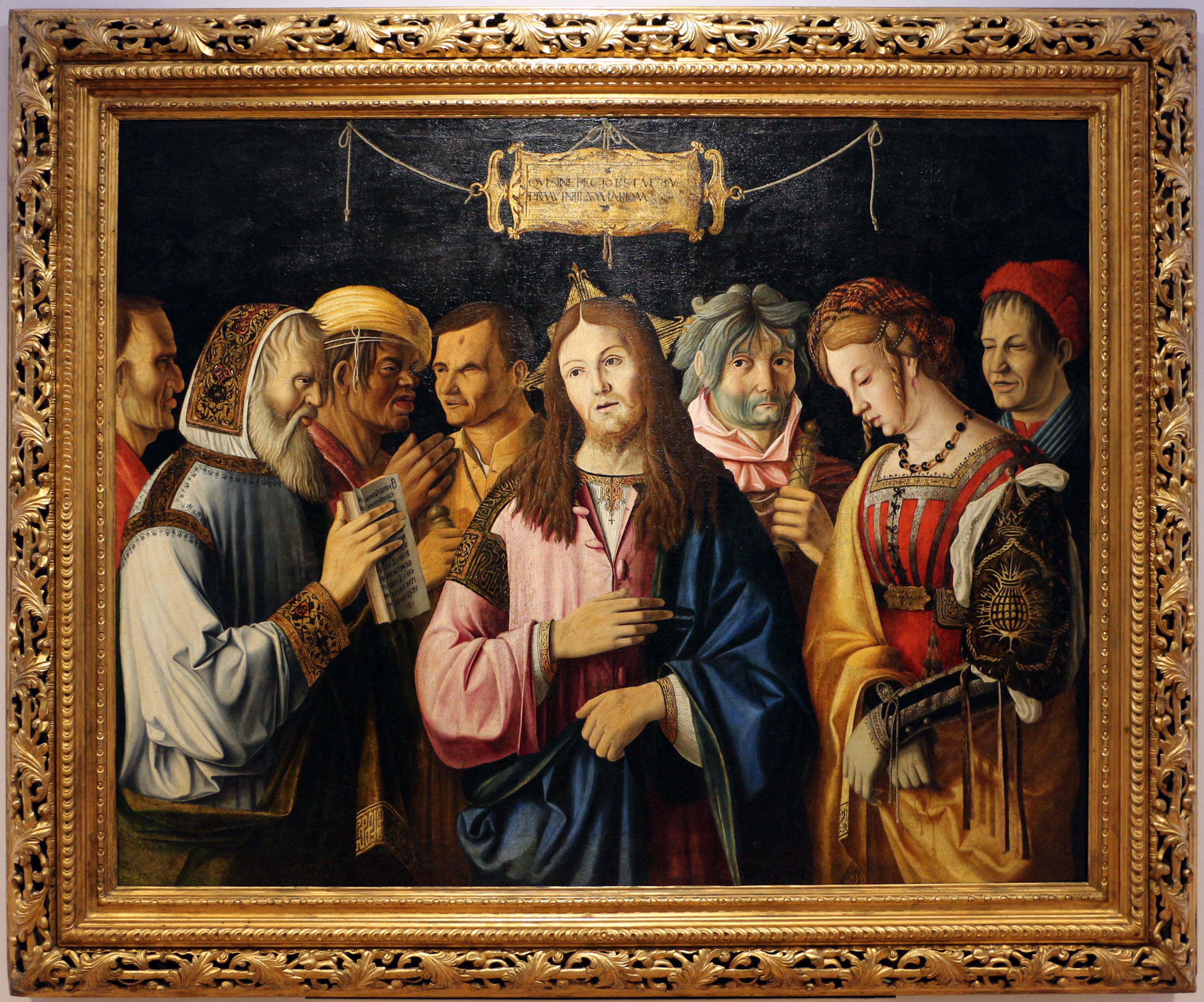 Italian paintings in the Bonnefantenmuseum